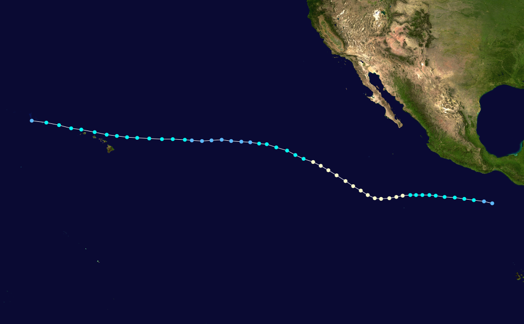 Hurricane Gil (1983) track. Uses the color scheme from the Saffir-Simpson Hurricane Scale.